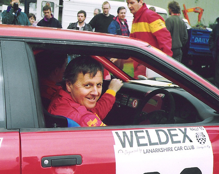 Jimmy McRae in an Audi 80 S2 Quattro on a stage Rally in Argyll. 1993. ( Scanned from a 35mm photo.)